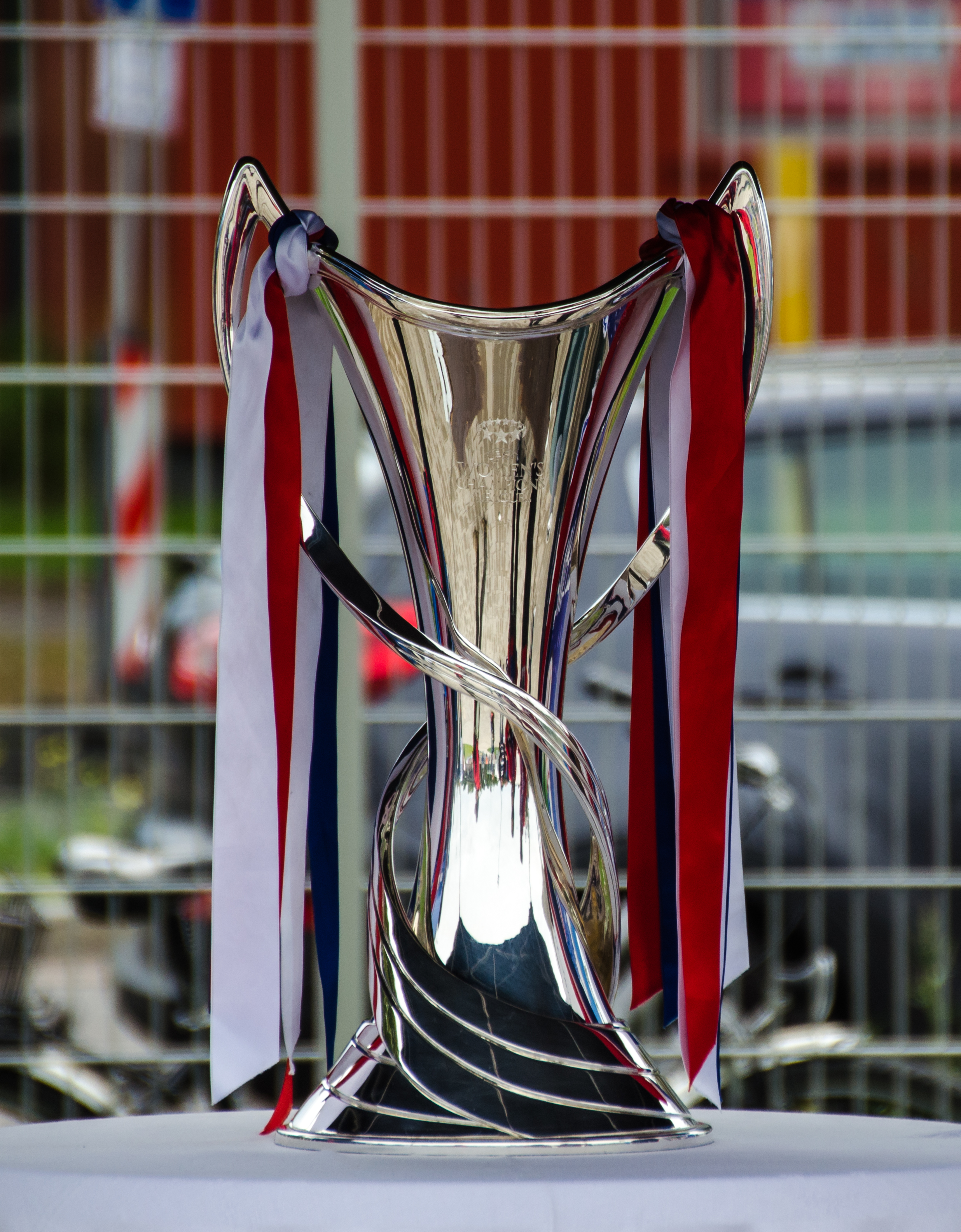 Match of the German Women's Football Bundesliga between 1.FFC Frankfurt and 1. FFC Turbine Potsdam, 2015-09-13